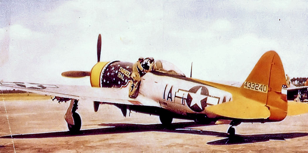 A USAAF Republic P-47D-30-RA Thunderbolt (s/n 44-33240) "Tarheel Hal" (IA-N) flown by Lt "Ike" Davis of the 366th Fighter Squadron, 358th Fighter Group at Toul Air Base, France in January 1945.